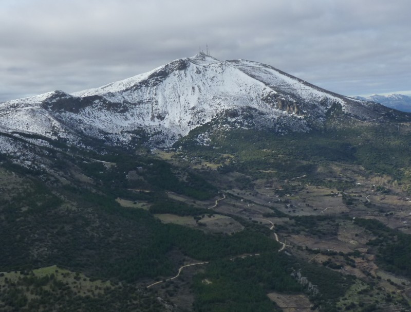 Almadén peak